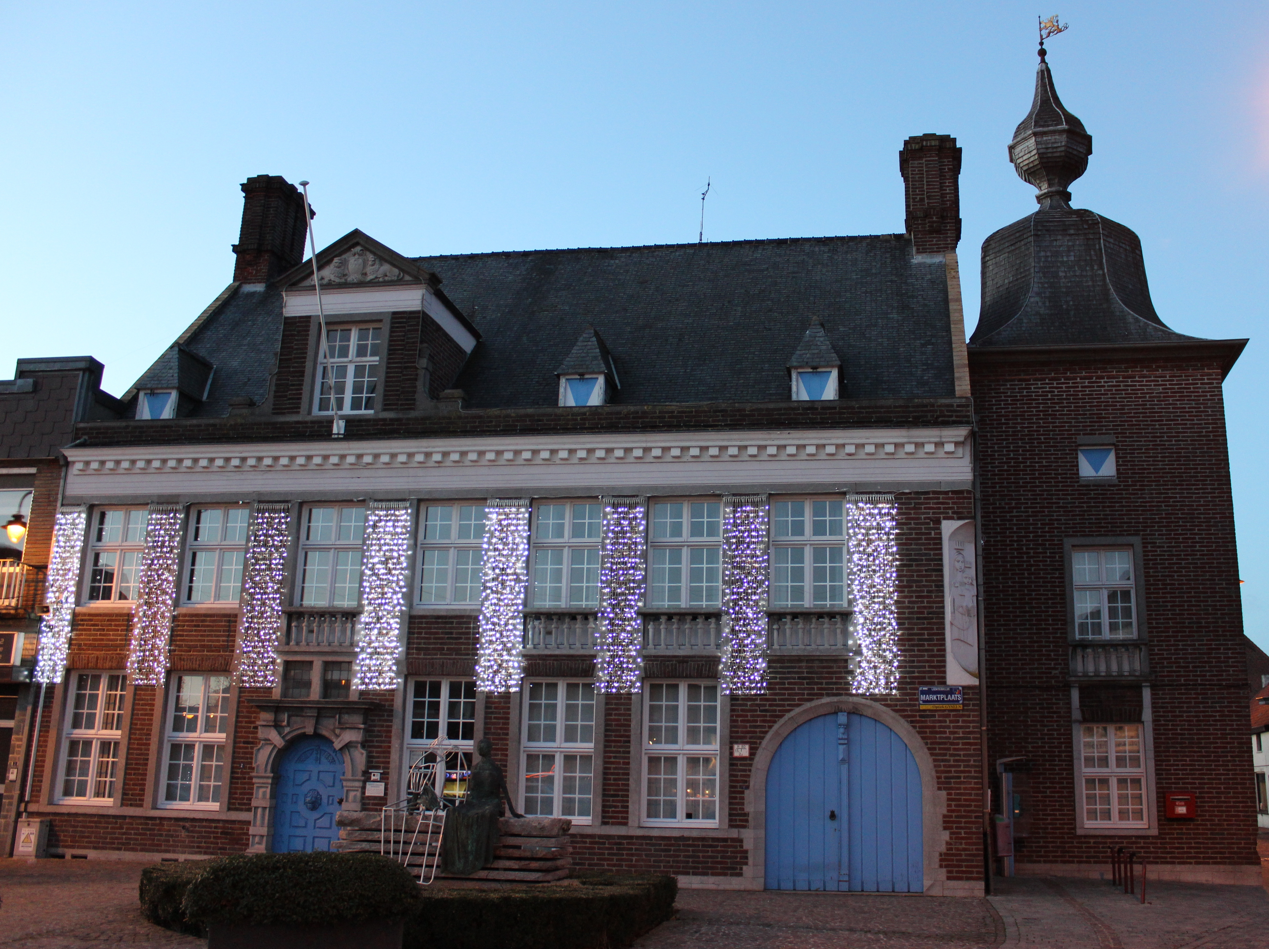 Lichtervelde Town hall (New Year 2013)